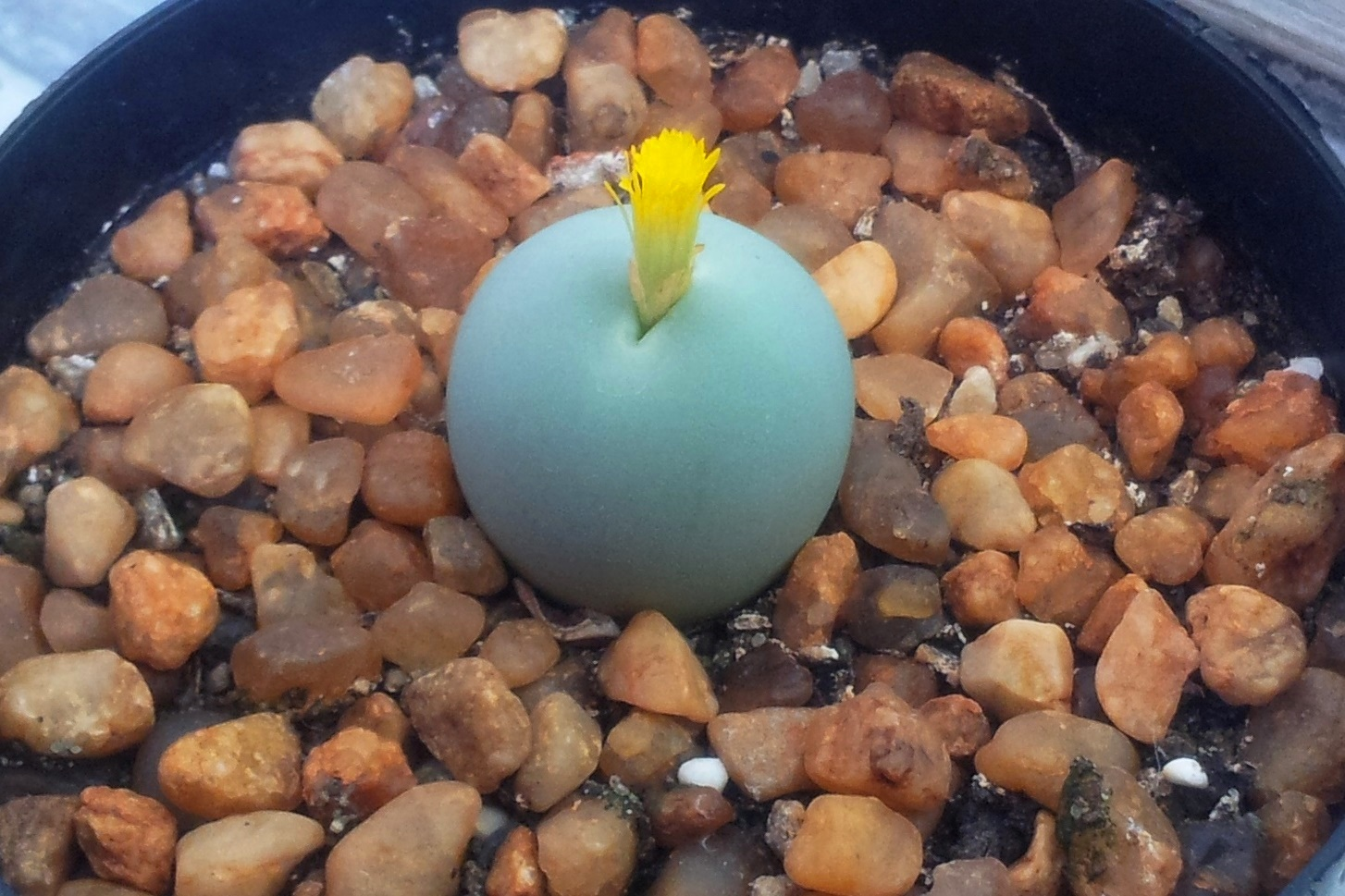 Conophytum calculus. Succulent plant from Namaqualand - South Africa. Grown in cultivation in Cape Town.